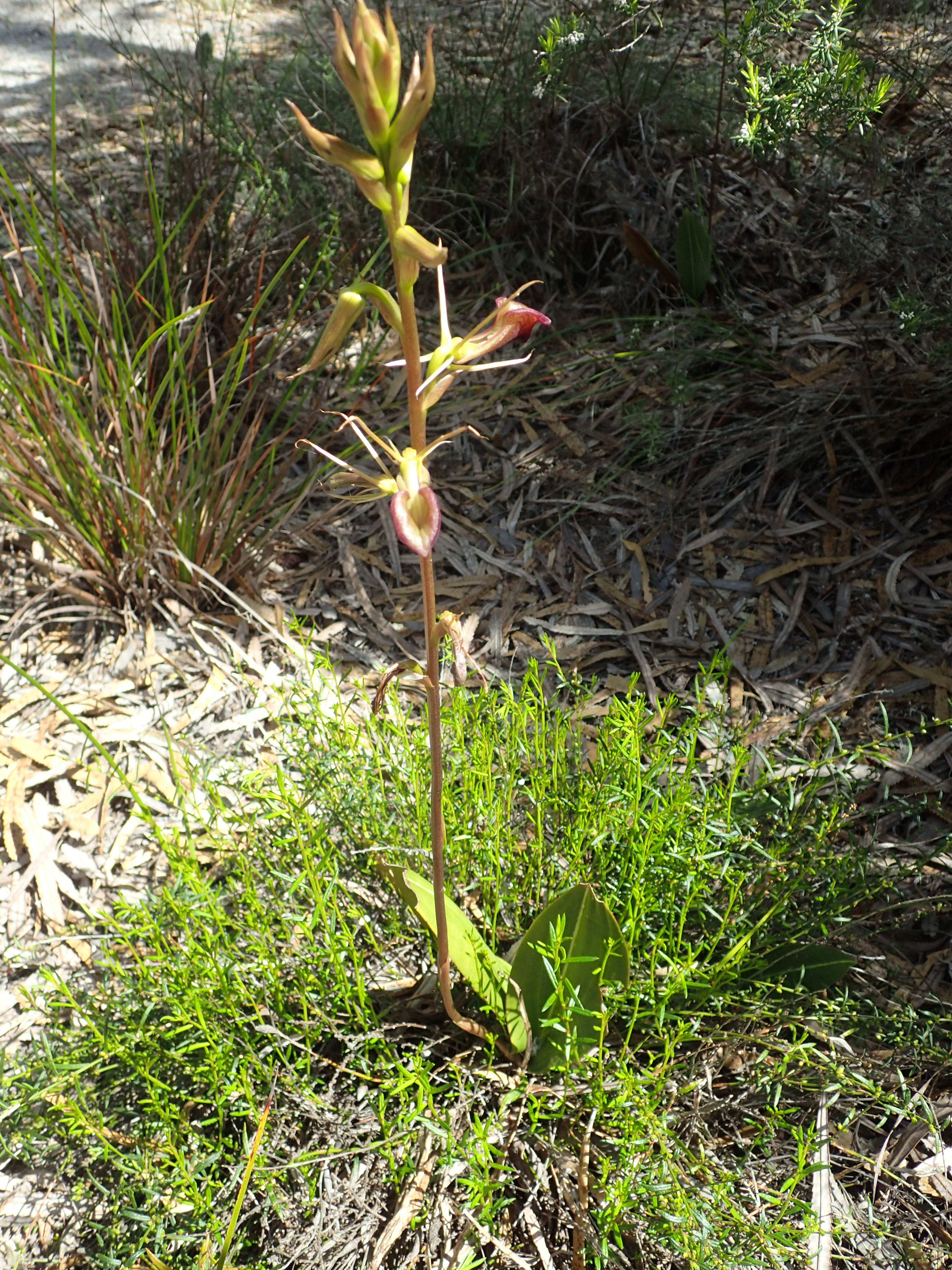 Whole plant of Cryptostylis ovata growing at Emu Point